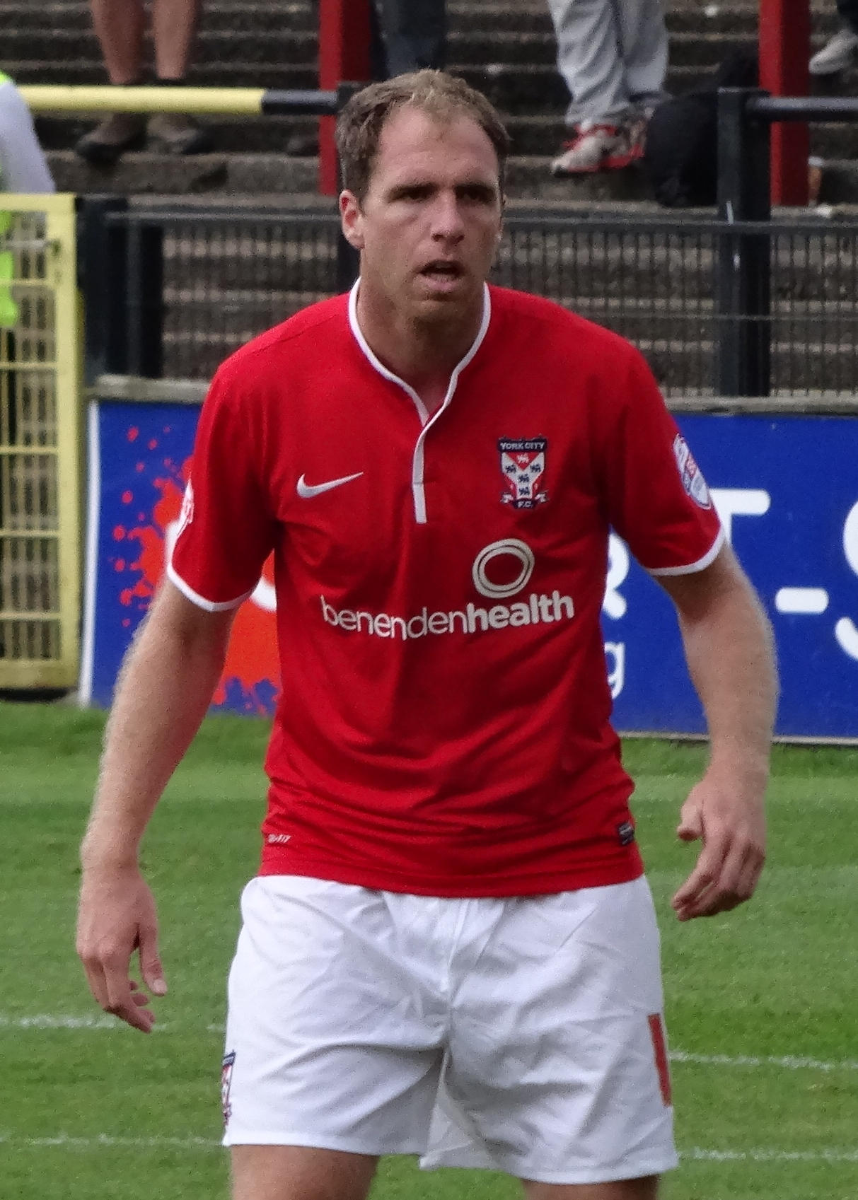 Keith Lowe playing for York City against Northampton Town at Bootham Crescent, York on 16 August 2014